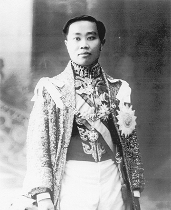 Photographic portrait of Prince Dhani Nivat